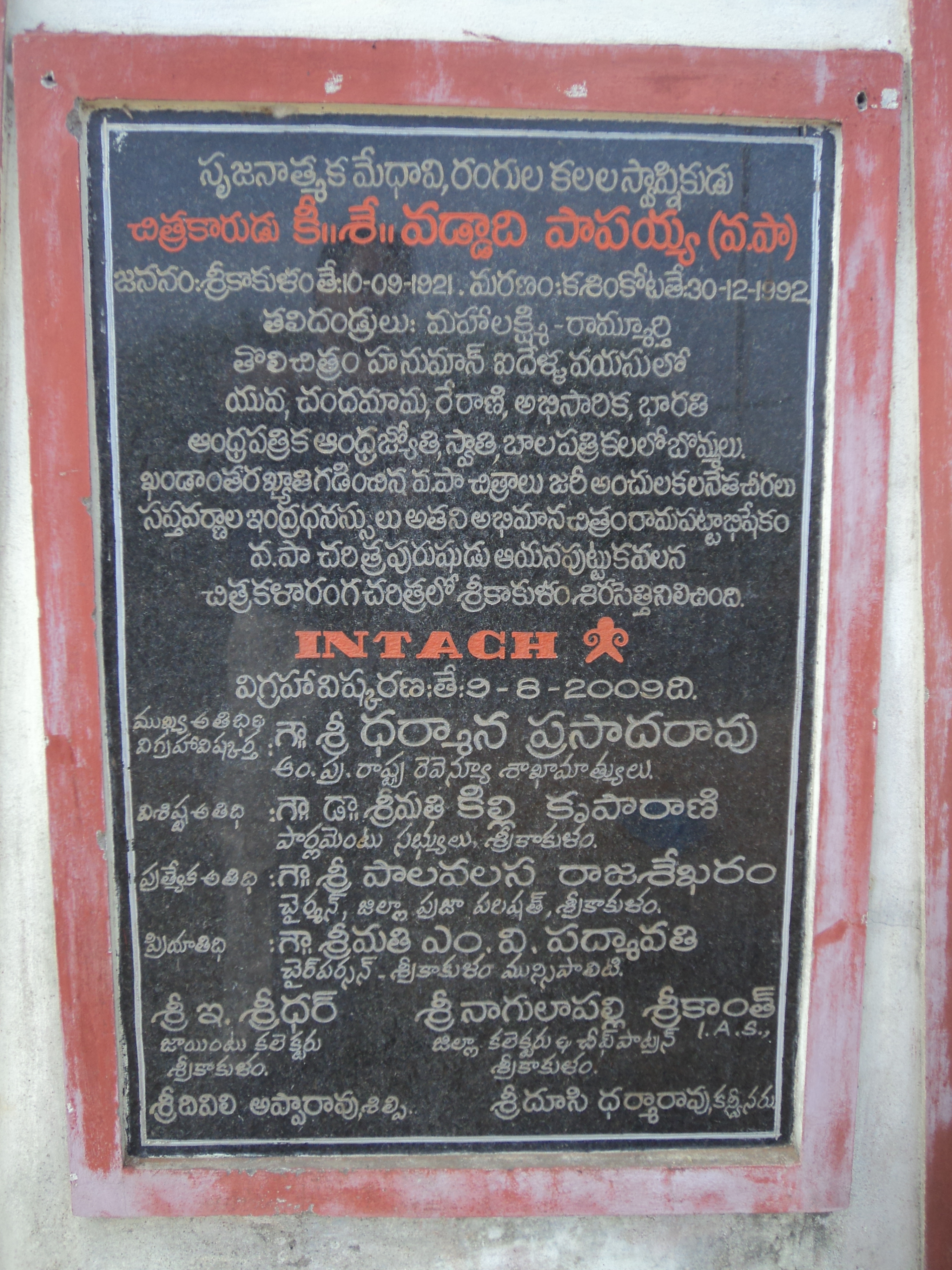 This is photograph of information plate below the statue of Vaddadi Papayya in Srikakulam taken by me.Rajasekhar1961 (talk) 12:40, 23 February 2012 (UTC)